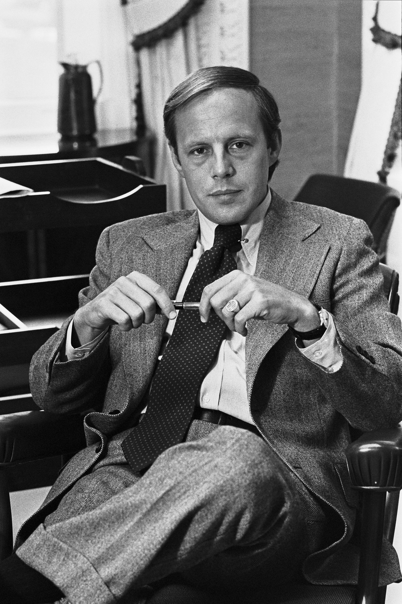 Portrait of John Dean, White House Counsel to President Richard Nixon